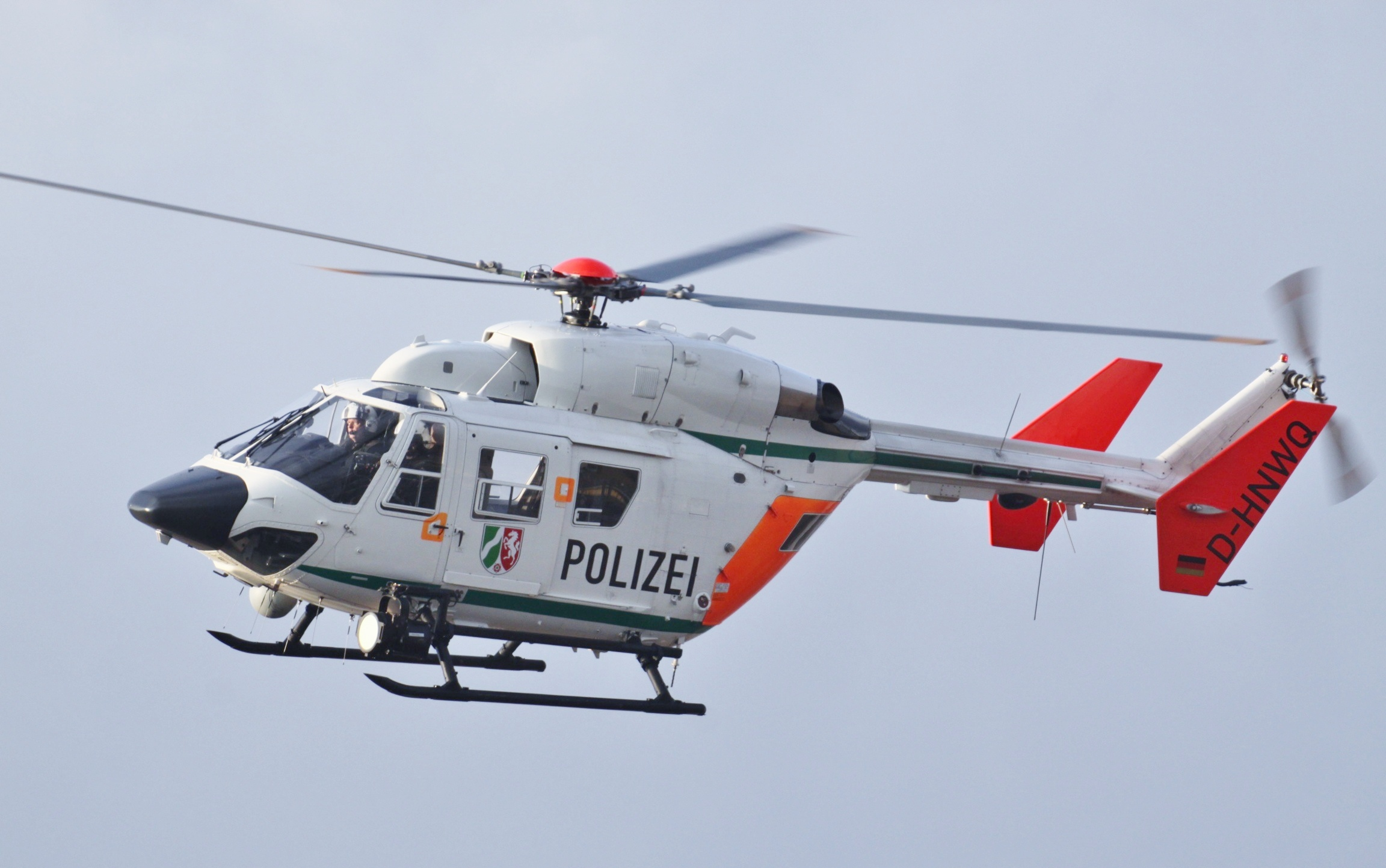 At Dusseldorf